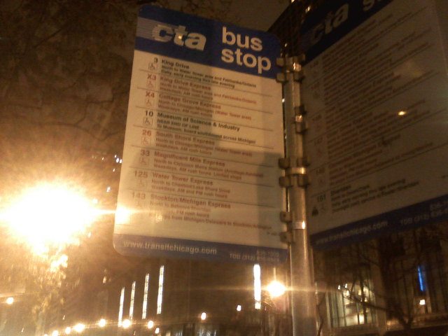 Detailed downtown Chicago bus stop sign